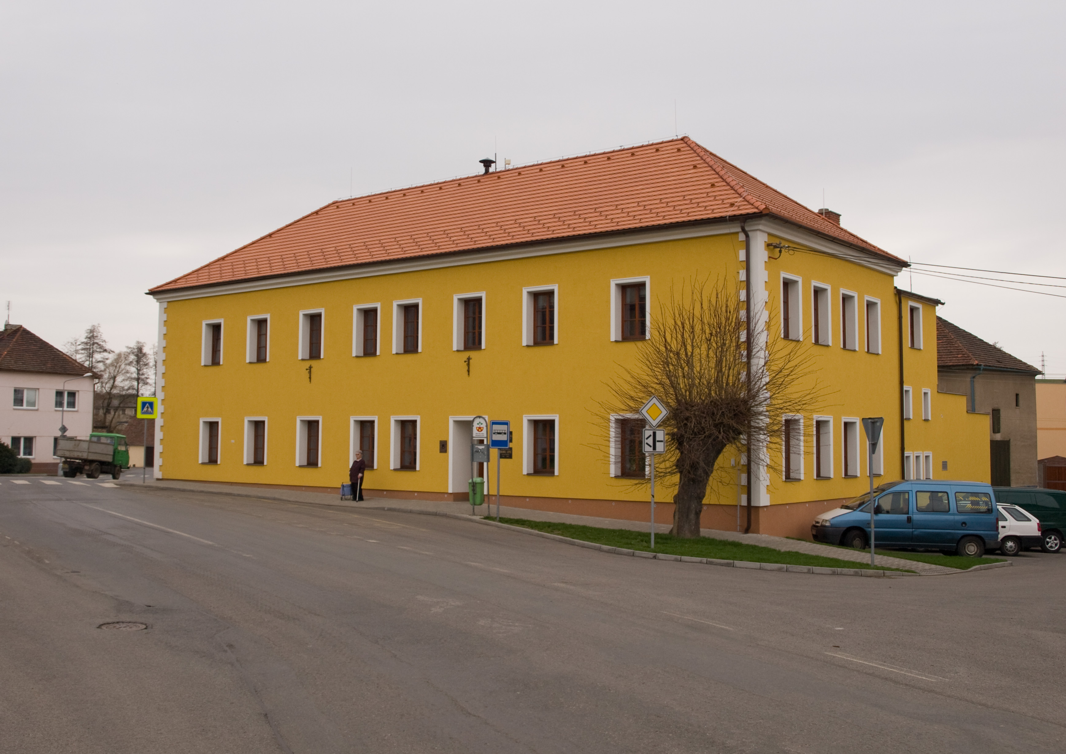 Square, Praskolesy 104, Beroun District, Central Bohemian Region, Czech Republic